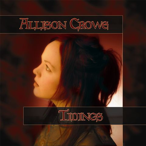 Tidings - Allison Crowe 2004 album cover artwork; photo by Billie Woods; all rights held by Allison Crowe Music Management, and freely released; also available on the web @ Any questions - please